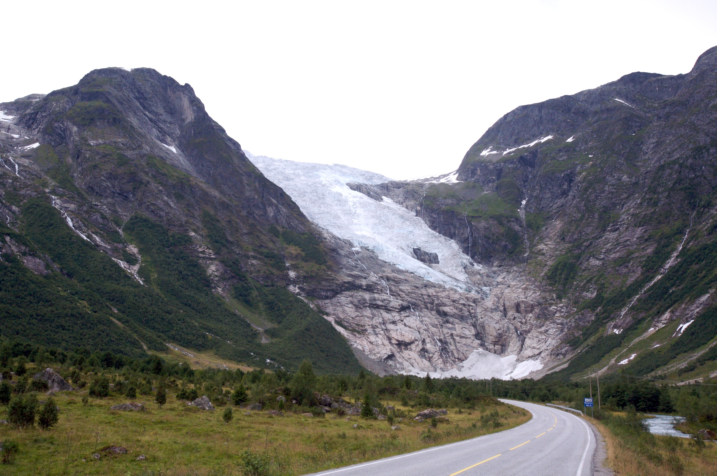 Glacier Bøyabreen, part of Jostedalsbreen in Fjærland in Sogndal muncipality in Song of Fjordane in Norway The road is Riksveg 5